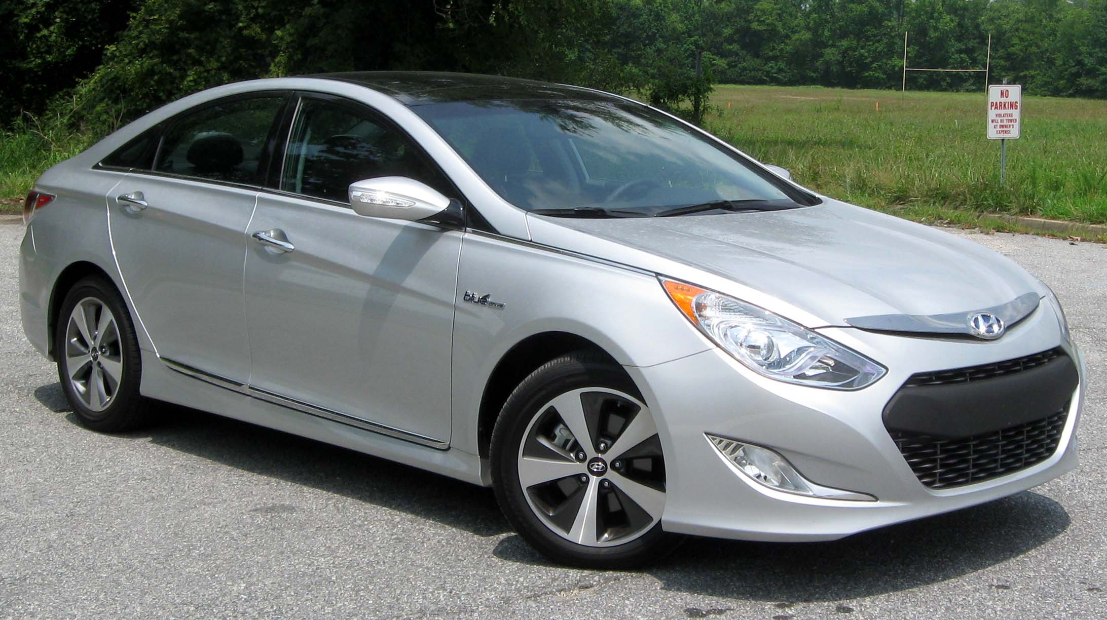 2011 Hyundai Sonata Hybrid photographed in Waldorf, Maryland, USA.